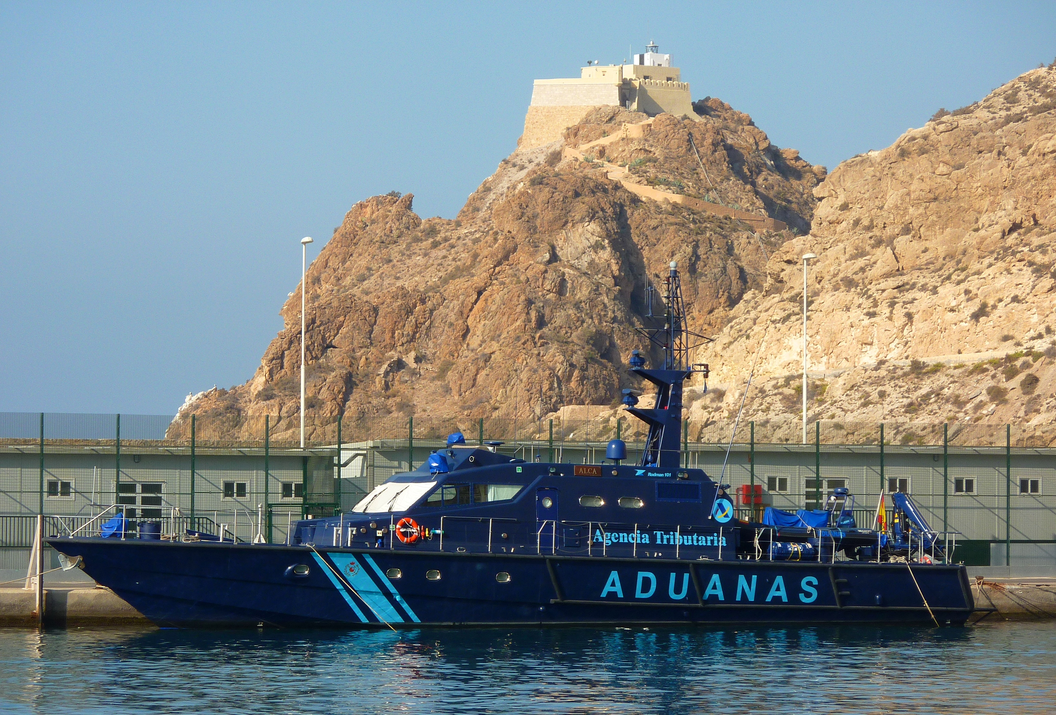 Spanish Customs patrol craft "Alca", Rodman-101 class.